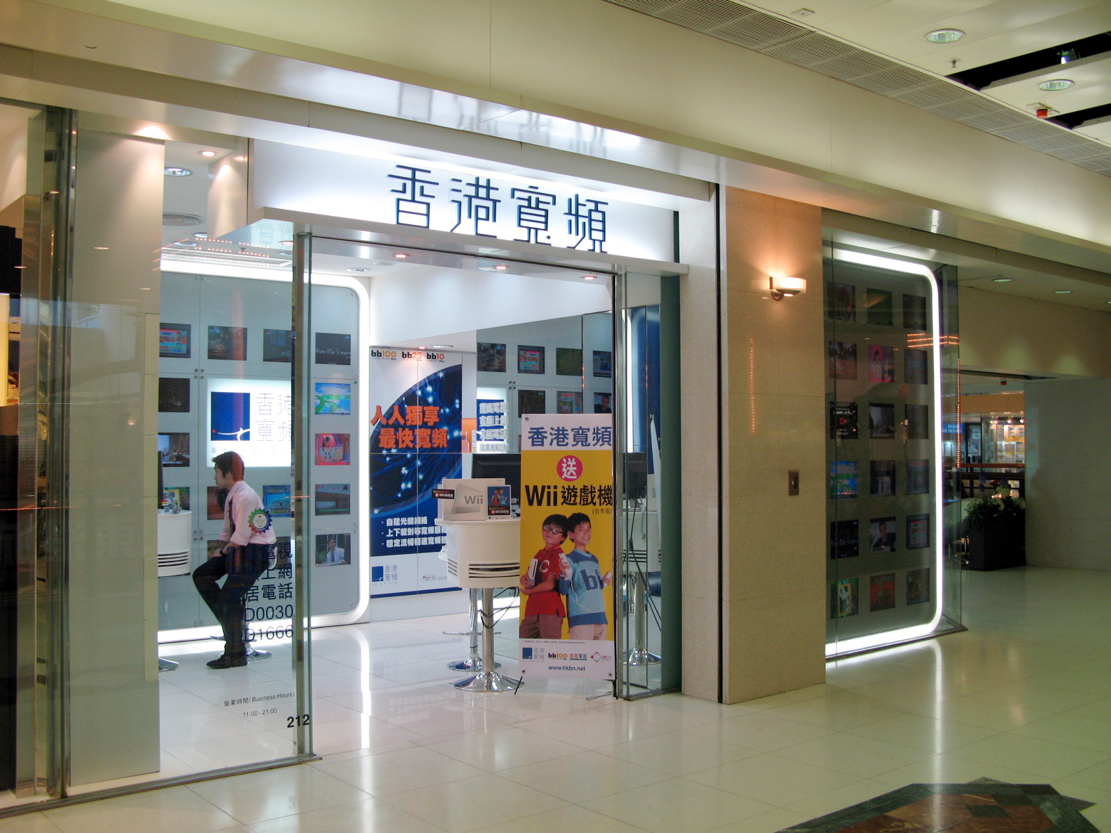 Hong Kong Boardband Store in East Point City